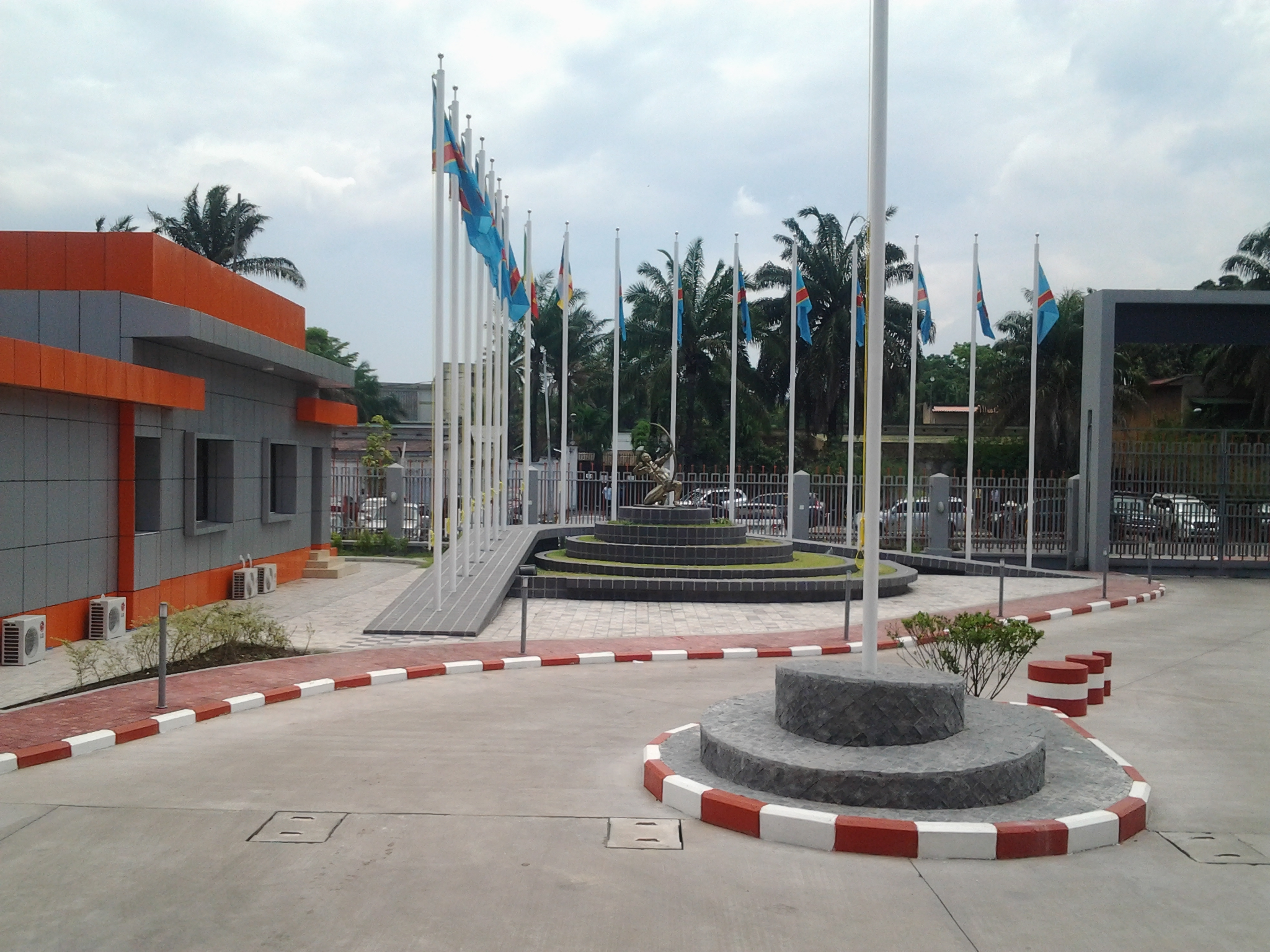 This is an image of "African people at work" from Democratic Republic of the Congo